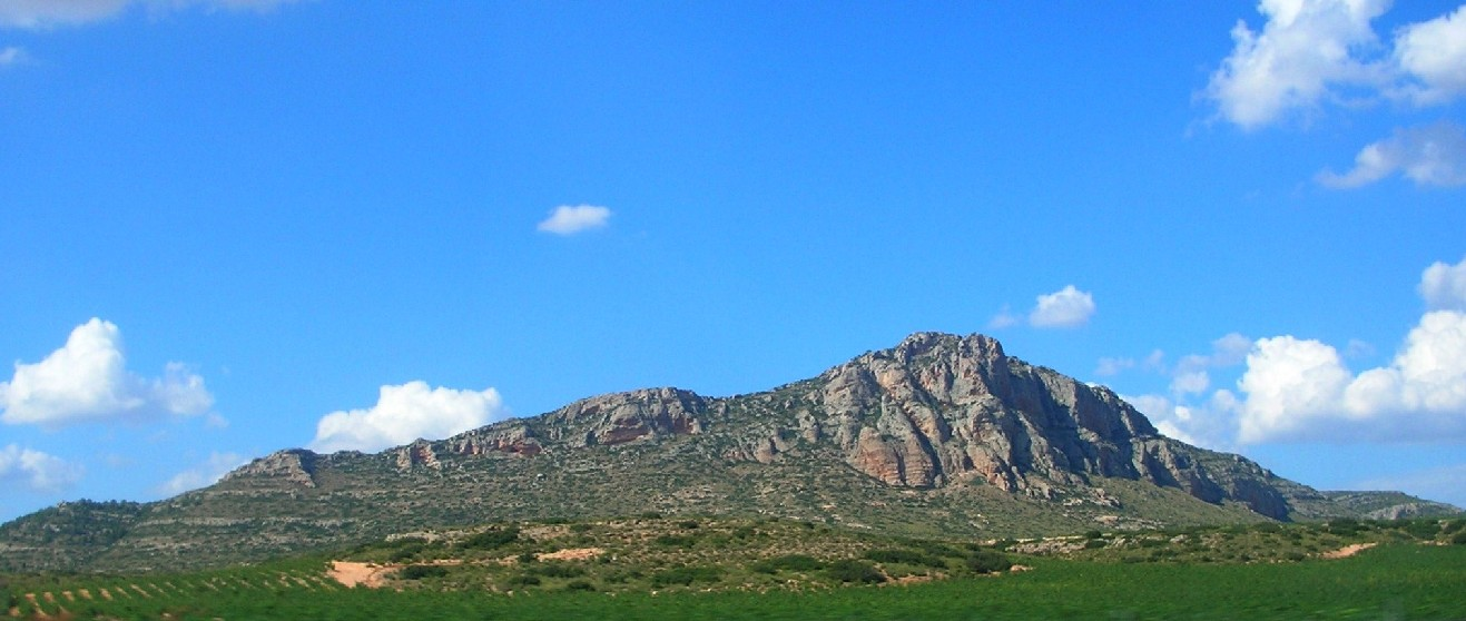 Southern end of Sierra del Mugron west of Almansa